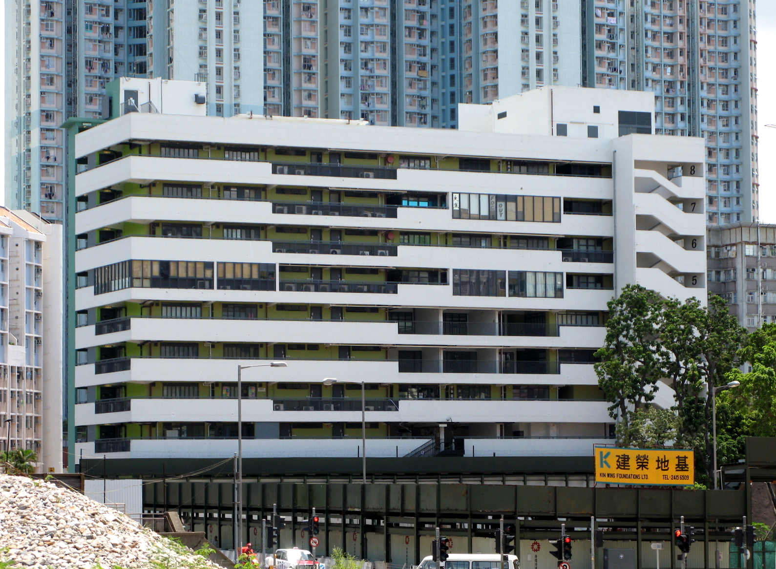 The Jockey Club Creative Arts Centre 賽馬會創意藝術中心